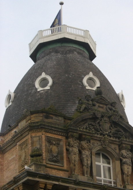 I took this picture in late December, 2006. Jsteph 02:26, 11 January 2007 (UTC)